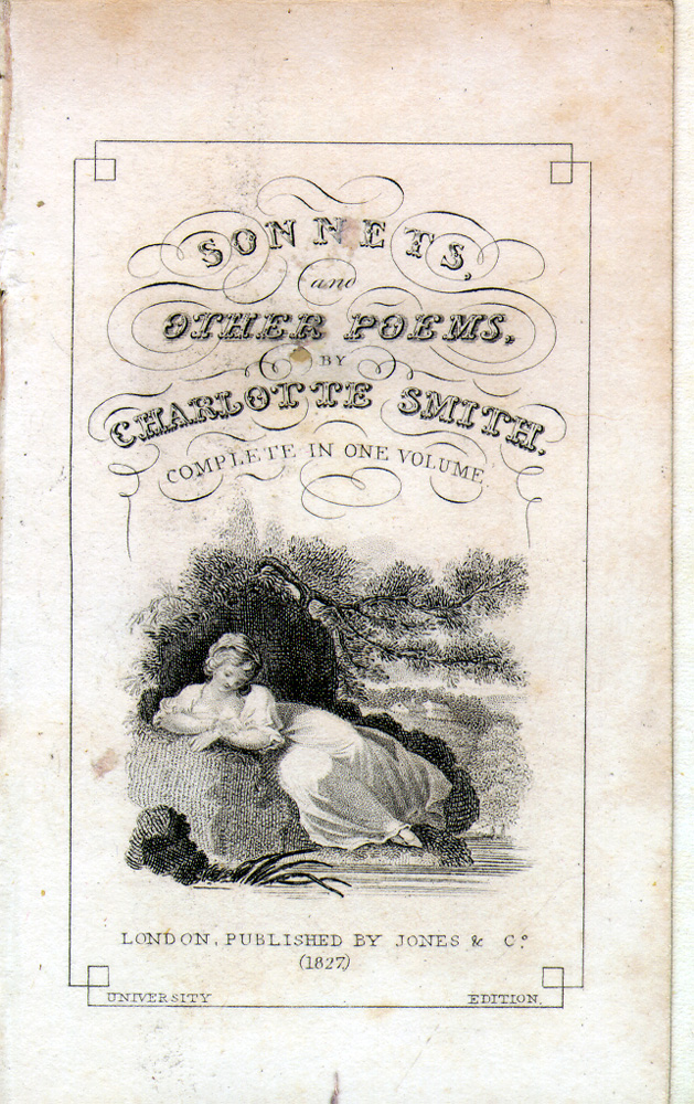 Title page, Sonnets and Other Poems by Charlotte Smith